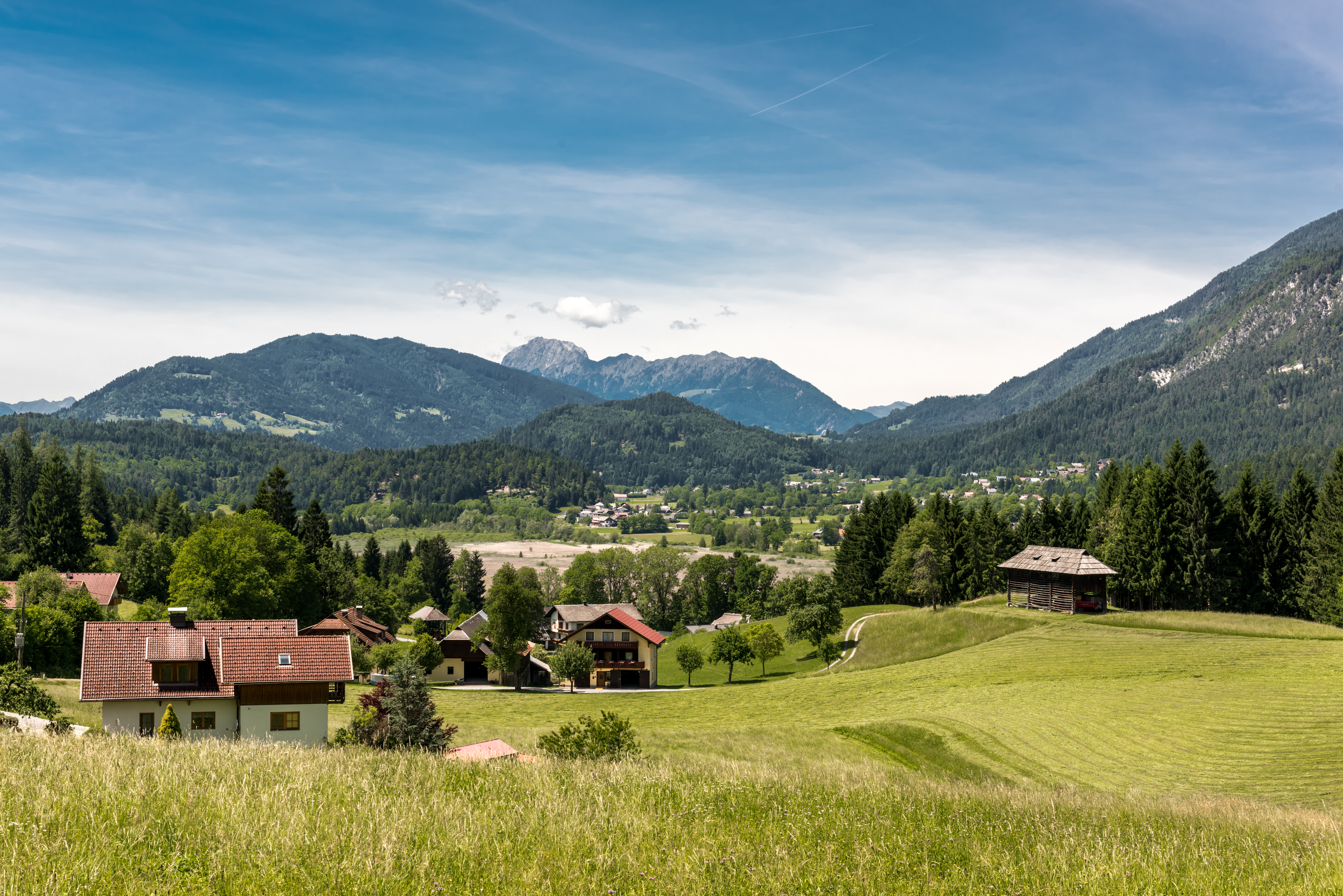 Eastern view of Obervellach and Eichforst, seen from Passriach, municipality Hermagor-Pressegger See, district Hermagor, Carinthia, Austria, EU